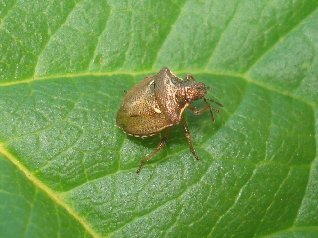 Eysarcoris aeneus